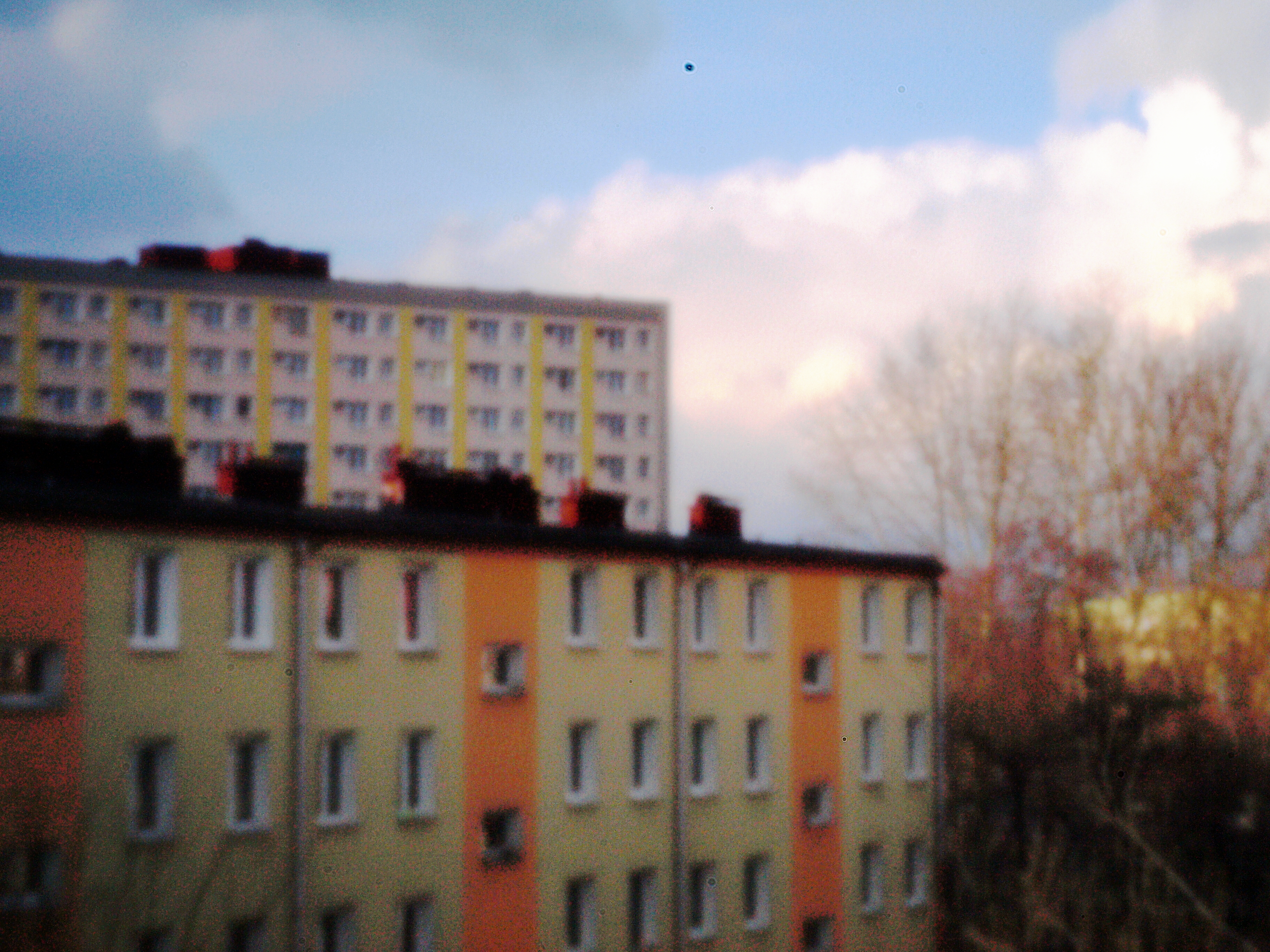 Pinhole photography. Body Olympus €-520 are sealed with aluminum foil punctured with a needle in the middle. Hole of 0.2 - 0.3 mm